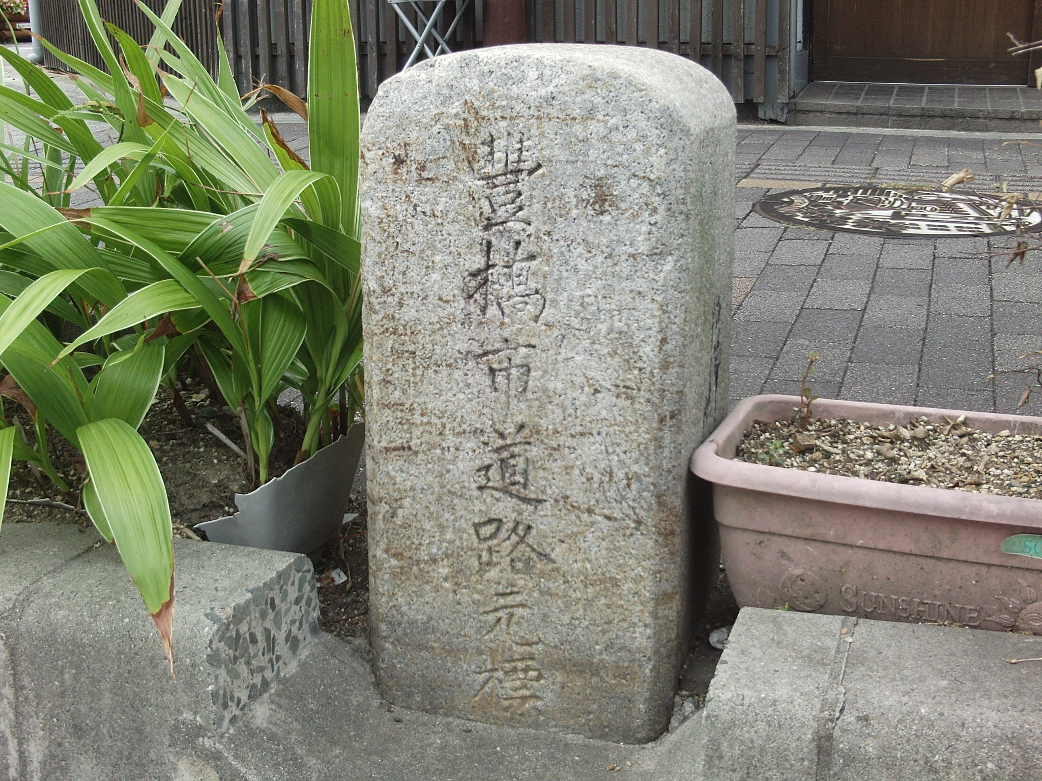 Kilometre zero of Toyohashi in Fudagicho, Toyohashi, Aichi.